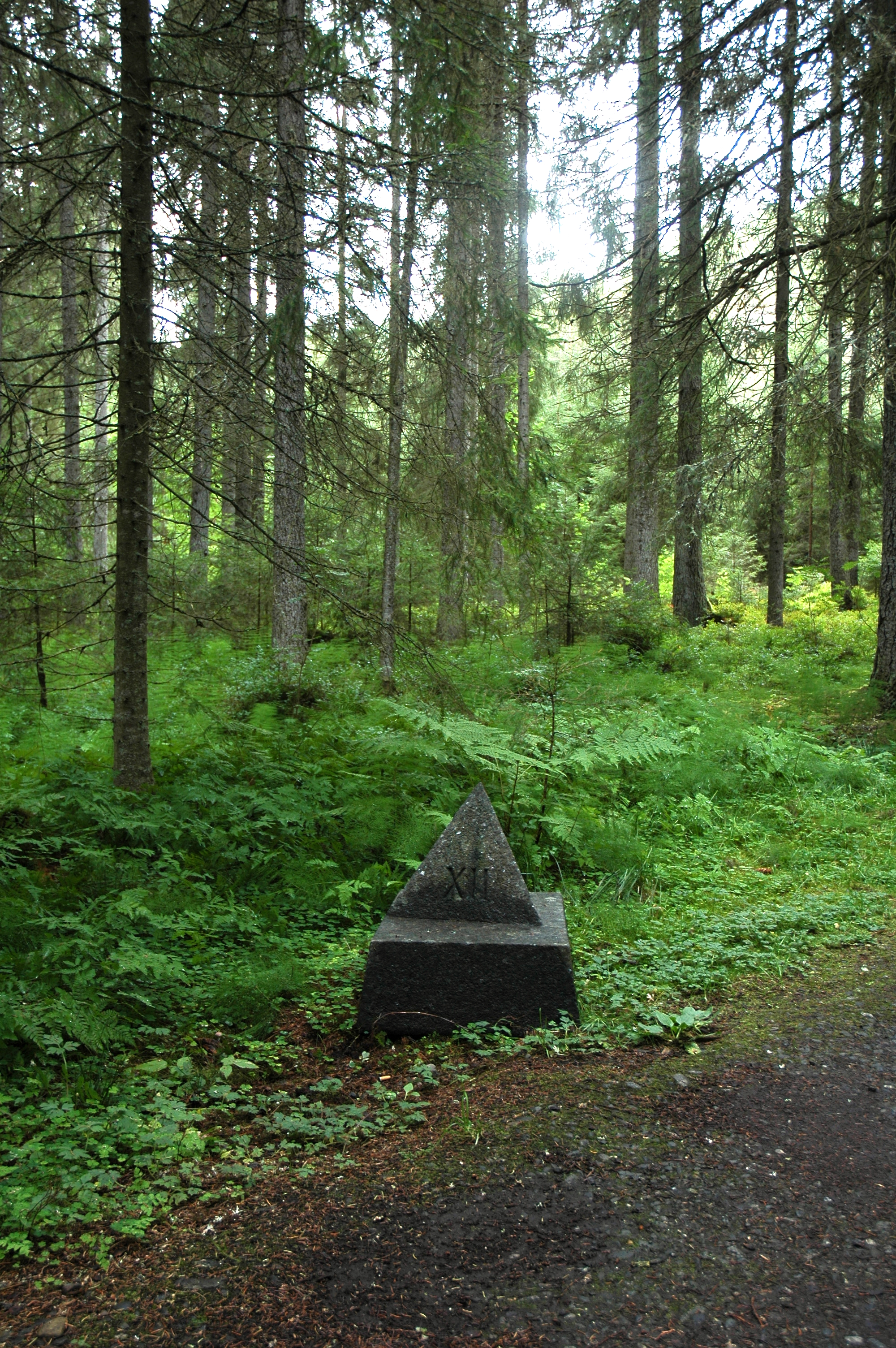 Marker over execution spot and mass grave at Falstadskogen, site of extrajudicial executions of political prisoners, Jews, and Serb and Russian prisoners of war in Norway.